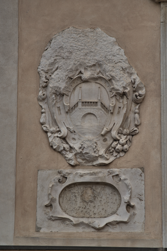 Coat of arm of Da Ponte family on the town hall of Crema (Italy)